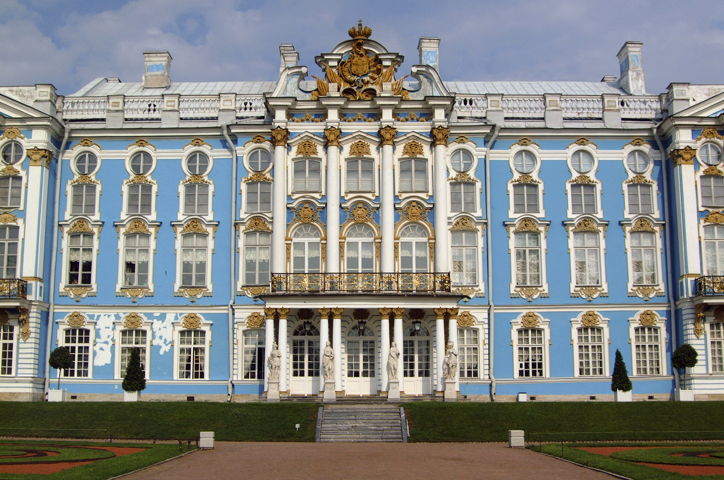 Palace of Catherine the Great